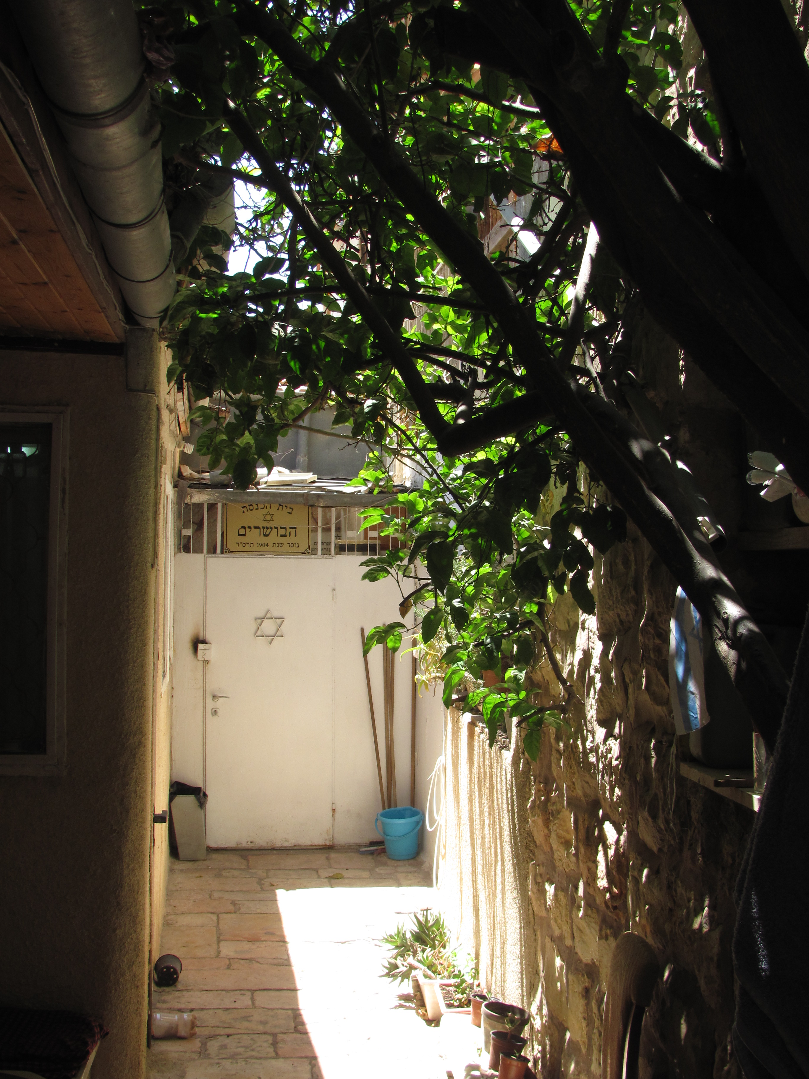 Beit Knesset HaBushim (Courtyard of the Bushrim Synagogue), 12 Zikhron Tuvya Street, Jerusalem, Israel